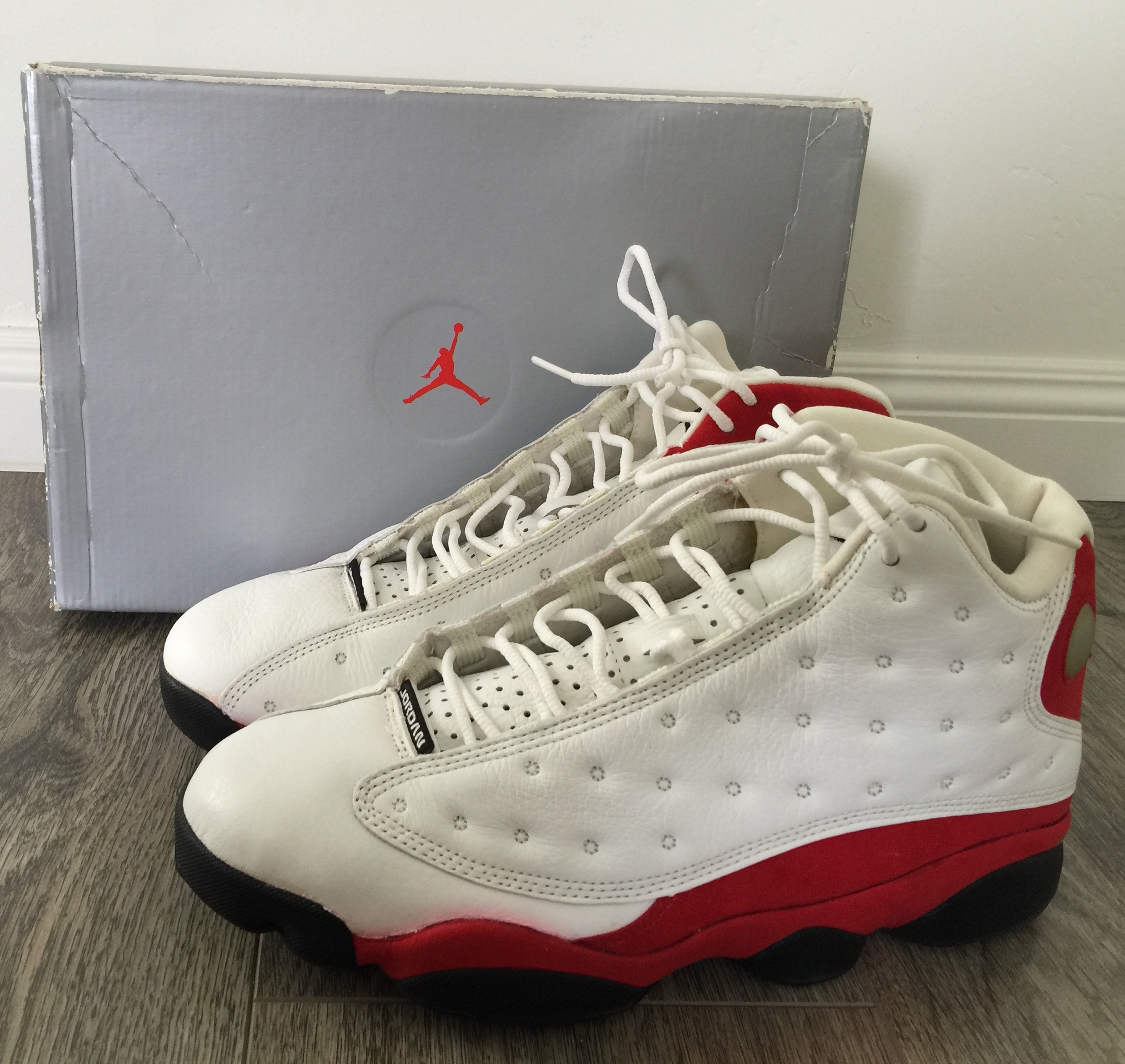 Nike Air Jordan XIII (White/black-varsity red Colorway)